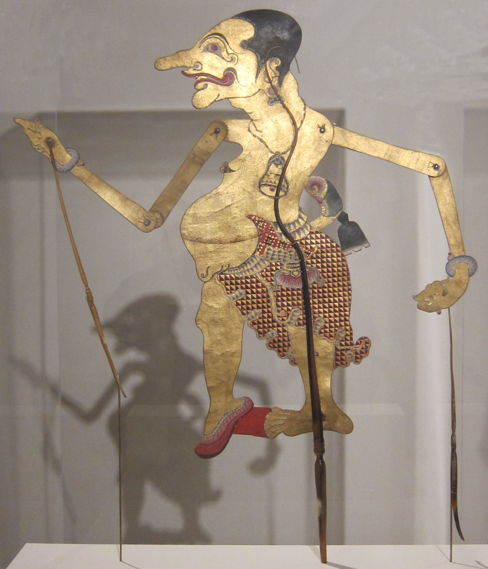 Wayang Kulit puppet from Indonesia, Petruk, second son of Semar, clown servant, water buffalo hide, horn, gold and pigments, Honolulu Museum of Art